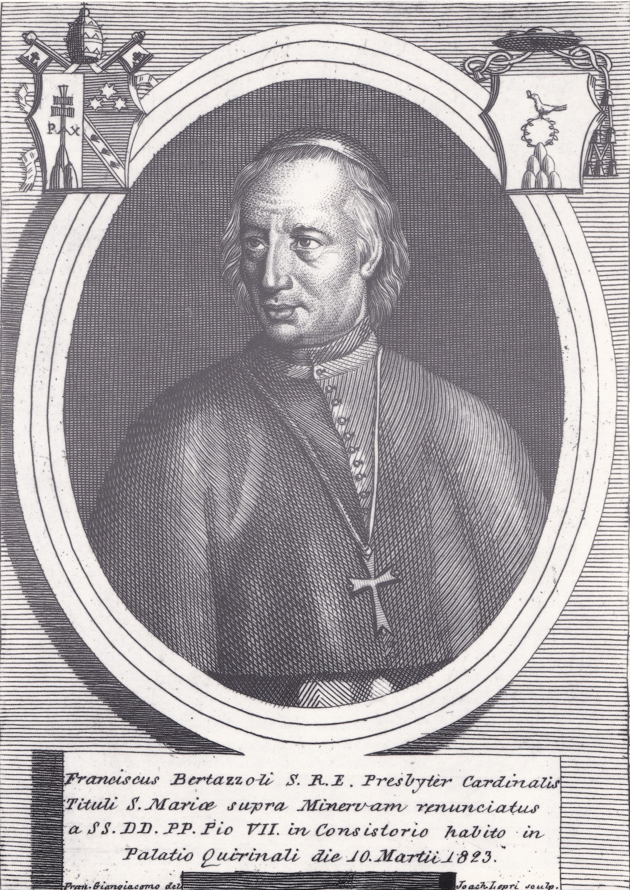 Cardinal Francesco Bertazzoli: portrait and Coat of arms